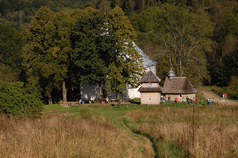 Little nice Village in Bieszczady mountain in South Poland. This village doesn't exist now.